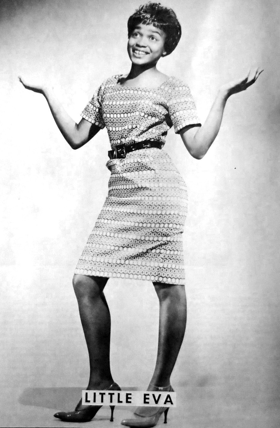 Photo of entertainer Little Eva from Murray the K's Christmas Revue of 1962. We have s copy of the program with some pages uploaded at File:Murray the Ks Christmas Revue 1962.JPG, however not the page with Little Eva on it until now.